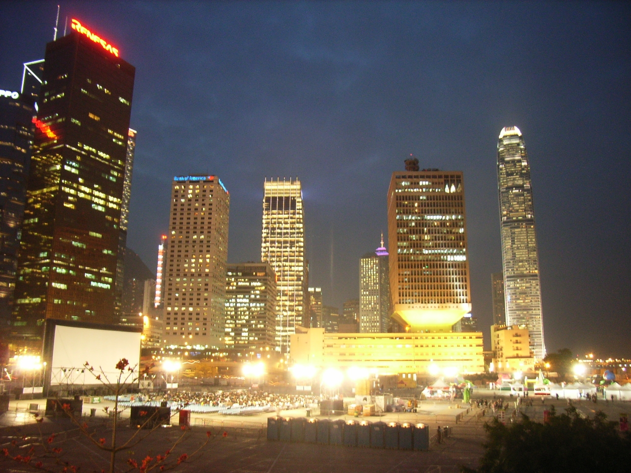 2006年4月7日旁晚，Hong Kong International Film Festival, 香港國際電影節主辦單位在添馬艦架起有5層樓高的亞洲最巨型吹氣銀幕，an event in Tamar site, Admiralty, Hong Kong ZSDH